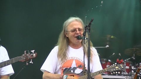 Chris Leslie performing at Fairport's Cropredy Convention 2014